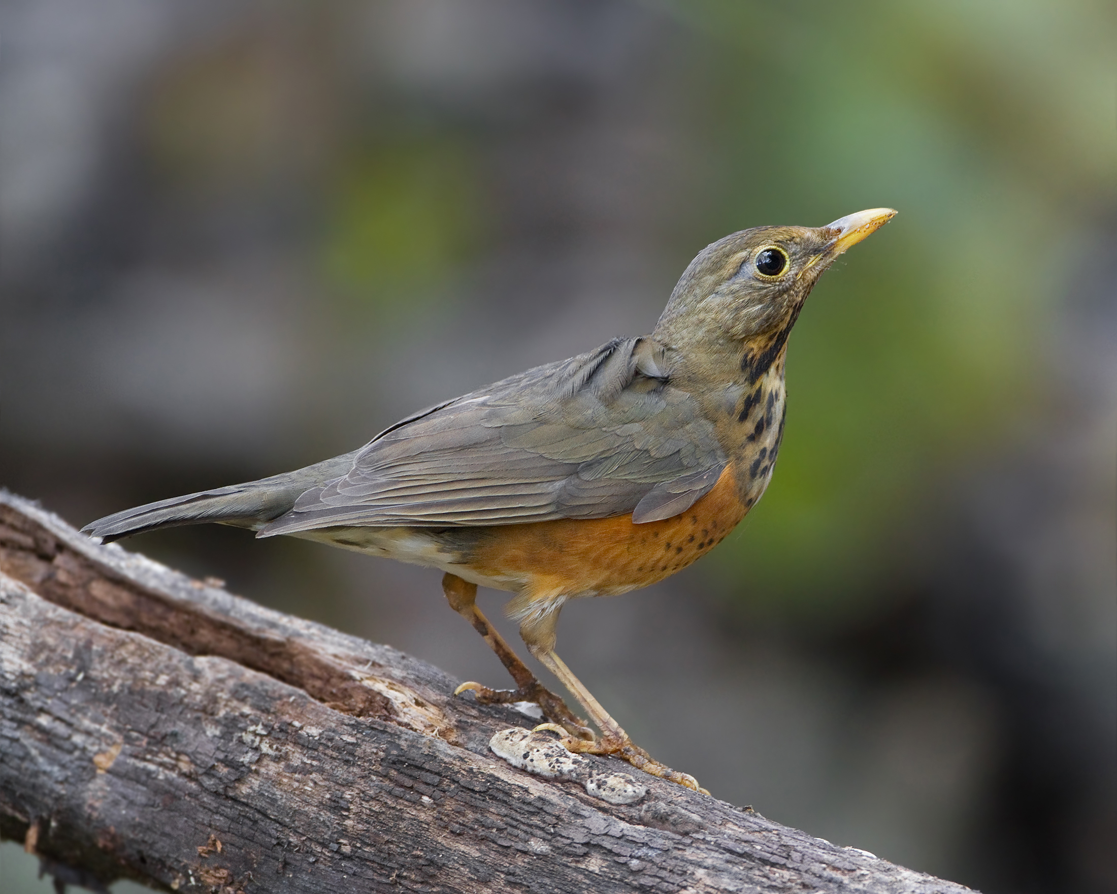 Black-breasted Thrush (Turdus dissimilis) female, Royal Agricultural Station, Ang Khang, Mon Pin, Chiang Mai, Thailand